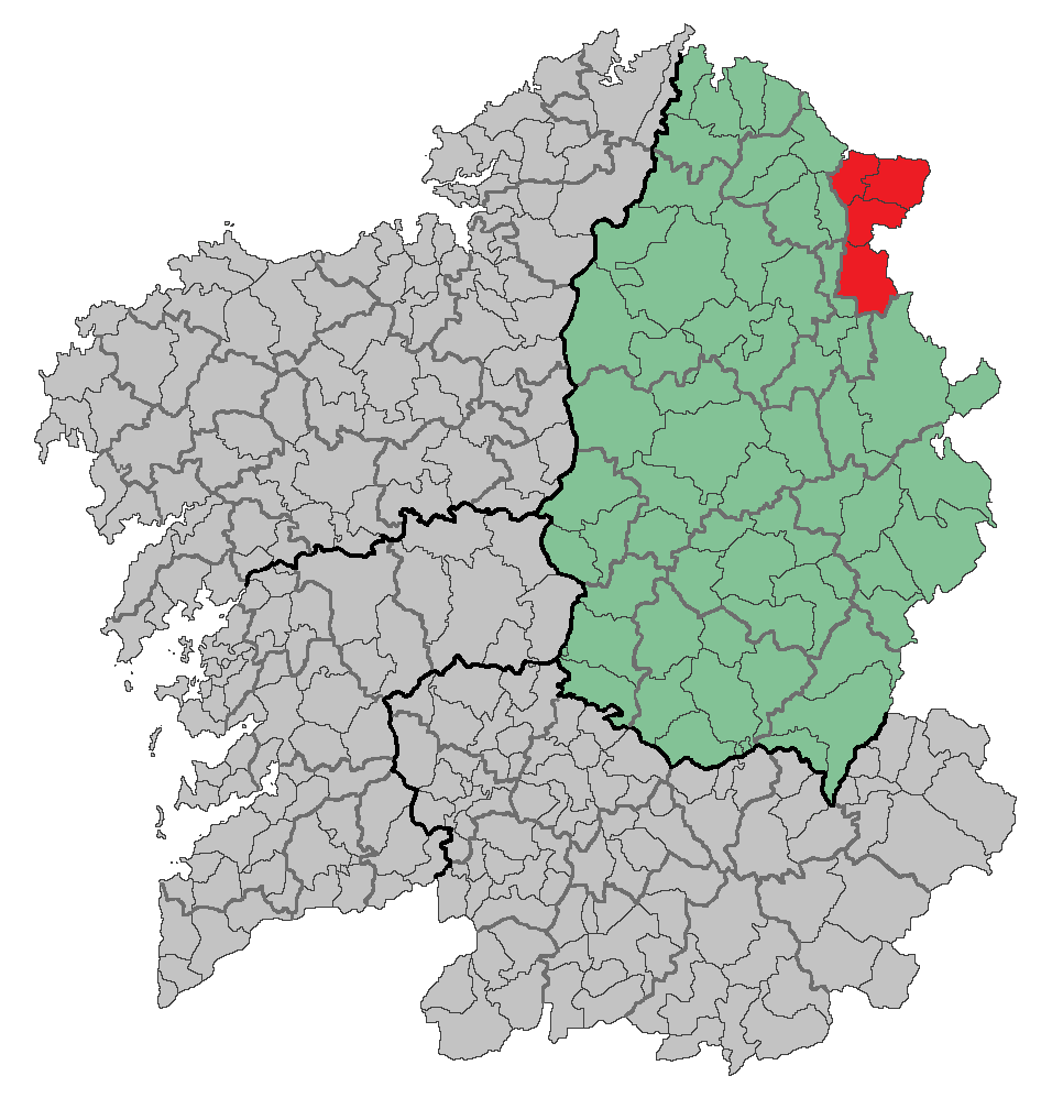 Region of Galicia (Spain) Based in: Image:Location of Betanzos.png Source: Designed by Leoplus. Original picture, designed by Caiser over a work made by Alyssalover.